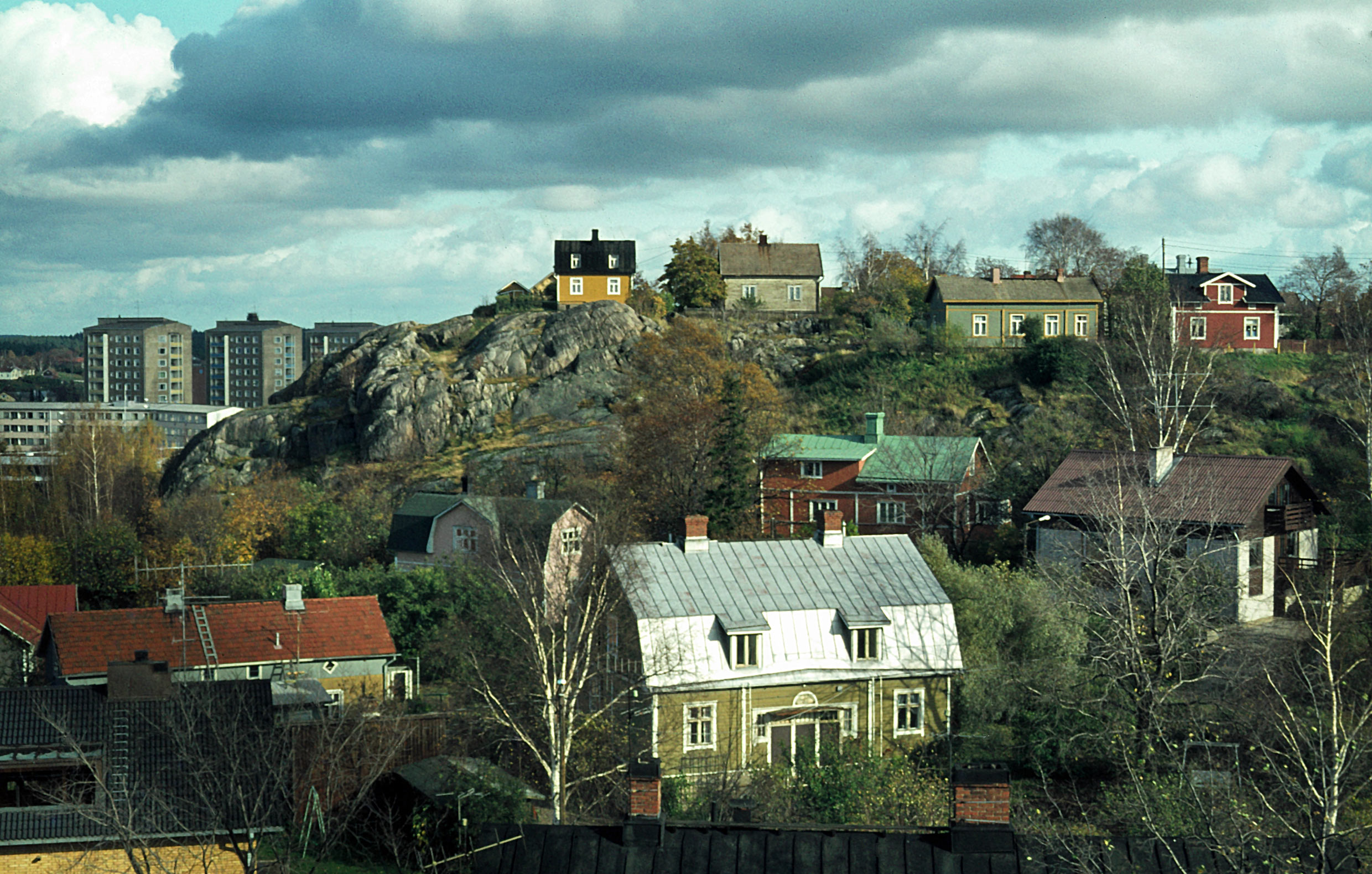 Kuuvuori hill in Turku, Finland, with early 20th century wooden houses, photographed in 1978.